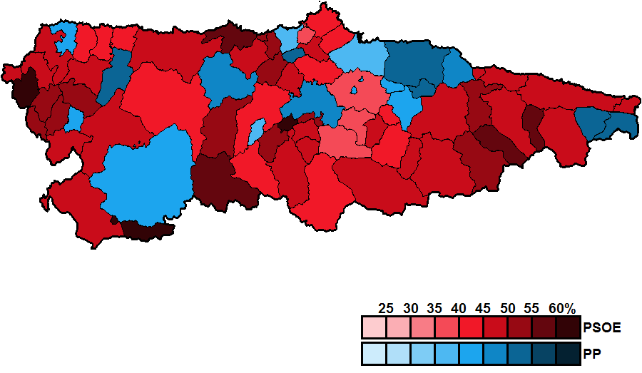 Most-voted party in Asturias municipalities, showing vote share obtained, in the Spanish general election, 1993.